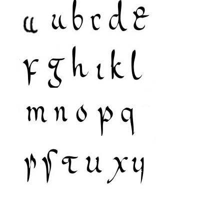 Luxeuil script